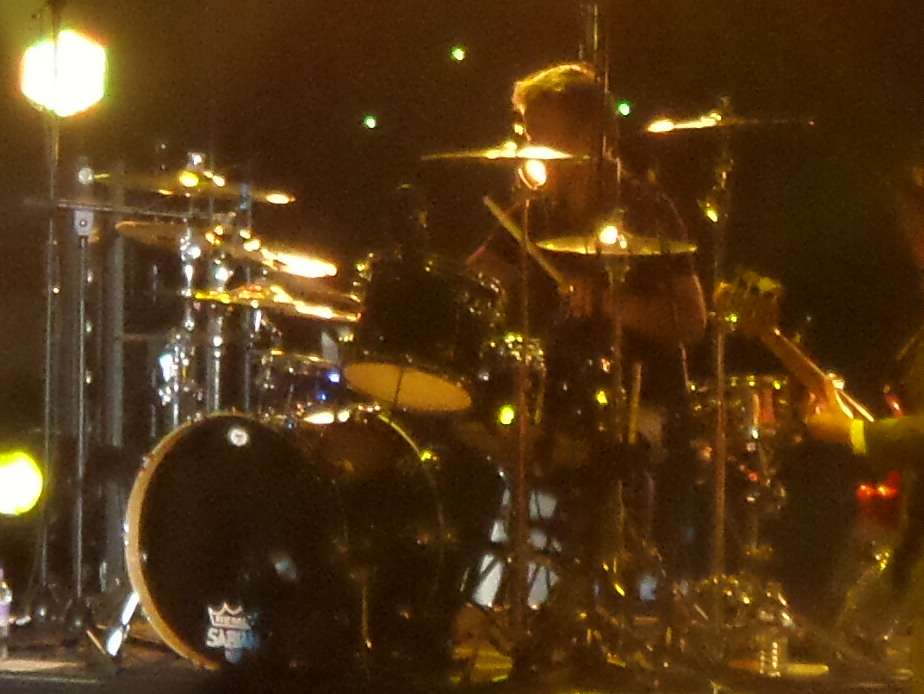 Madness Manchester Arena Dec. 19, 2014 Dan Woodgate (drummer for Madness)